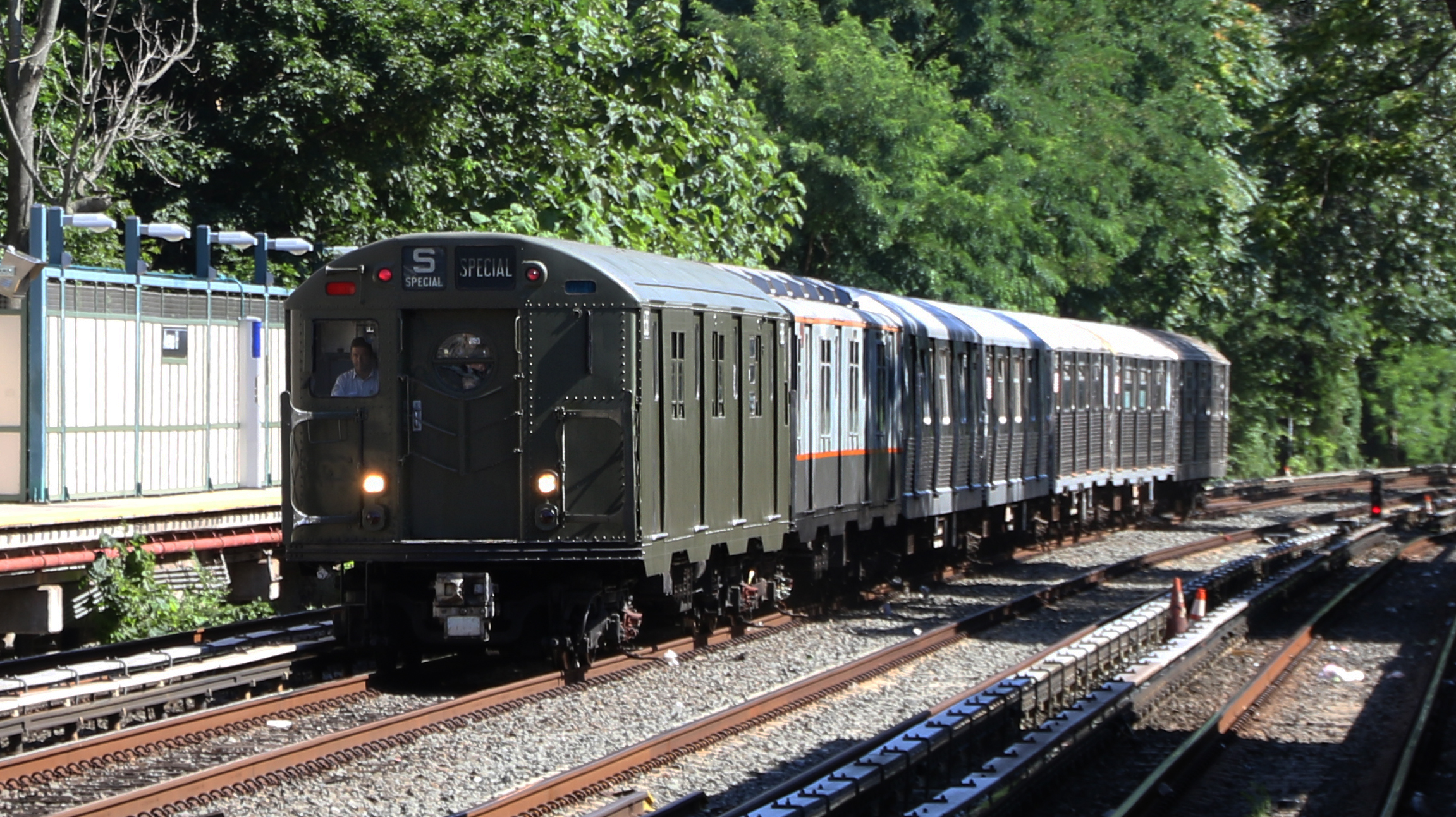 MTA NYC Subway "Train of Many Metals" vintage train passing Ave H, heading towards 96th St/2nd Ave.